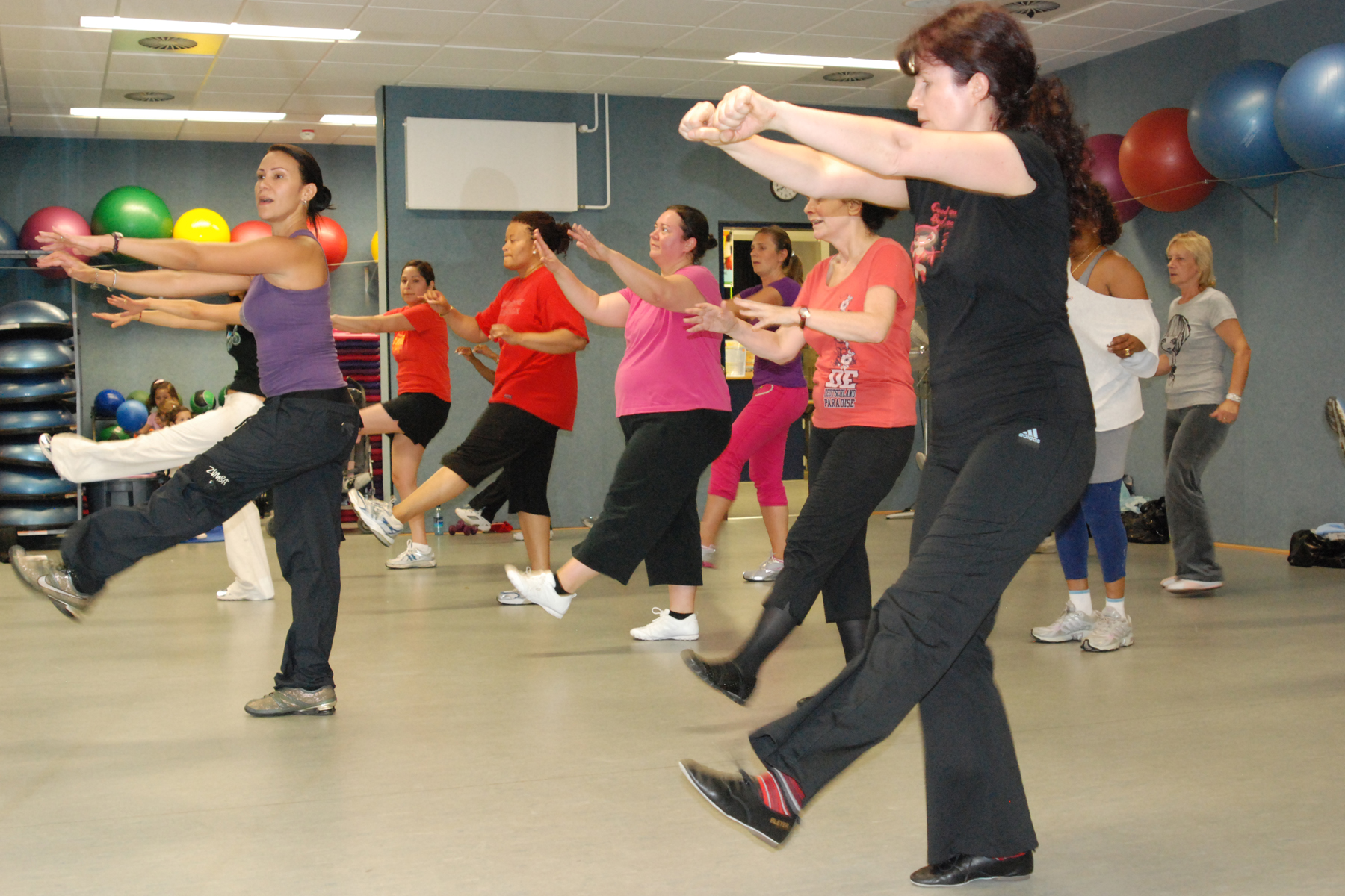 Maria Moline, instructor, coaches her Zumba class through the dance choreography in the Patch Fitness Center in U.S. Army Garrison Stuttgart.